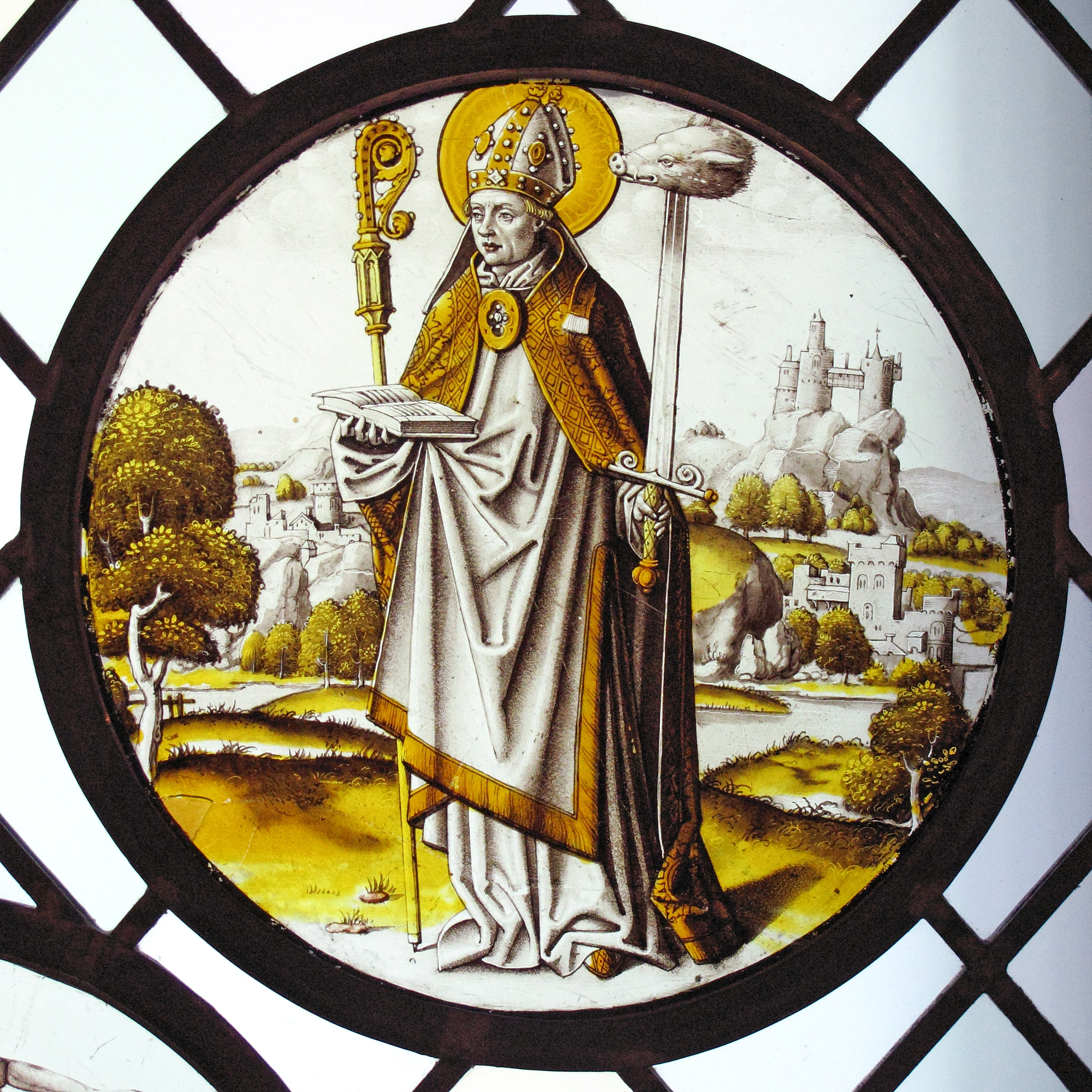 South Netherlandish; Roundel; Glass-Stained